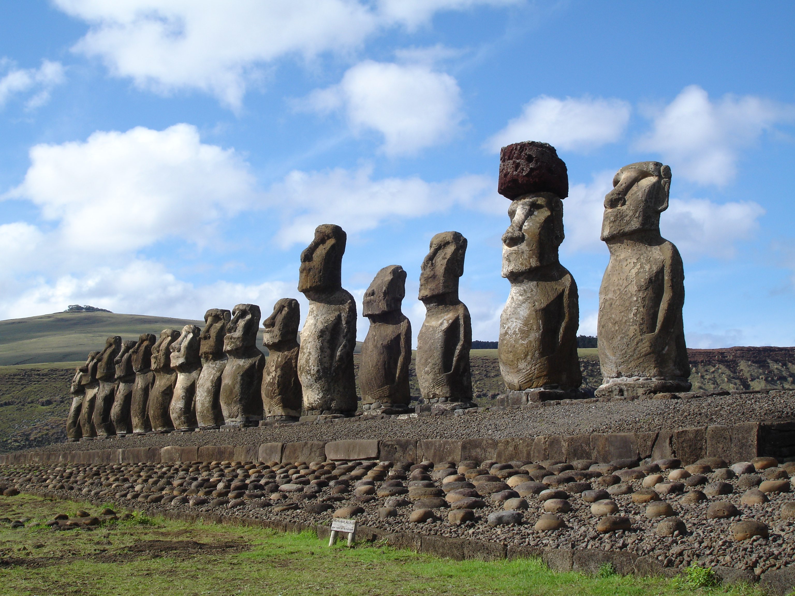 Easter Island statues by Honey Hooper.